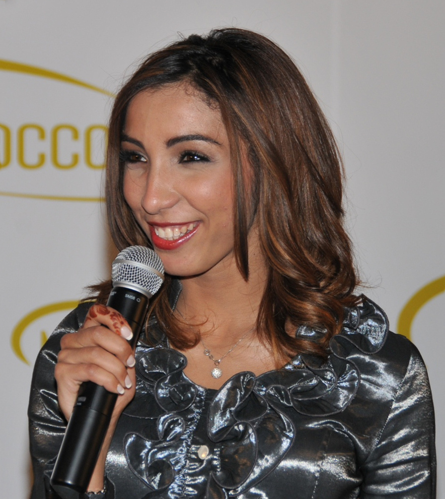 Moroccan singer Dounia Batma says Maghreb youth should "never stop dreaming and not back down in the face of failure."